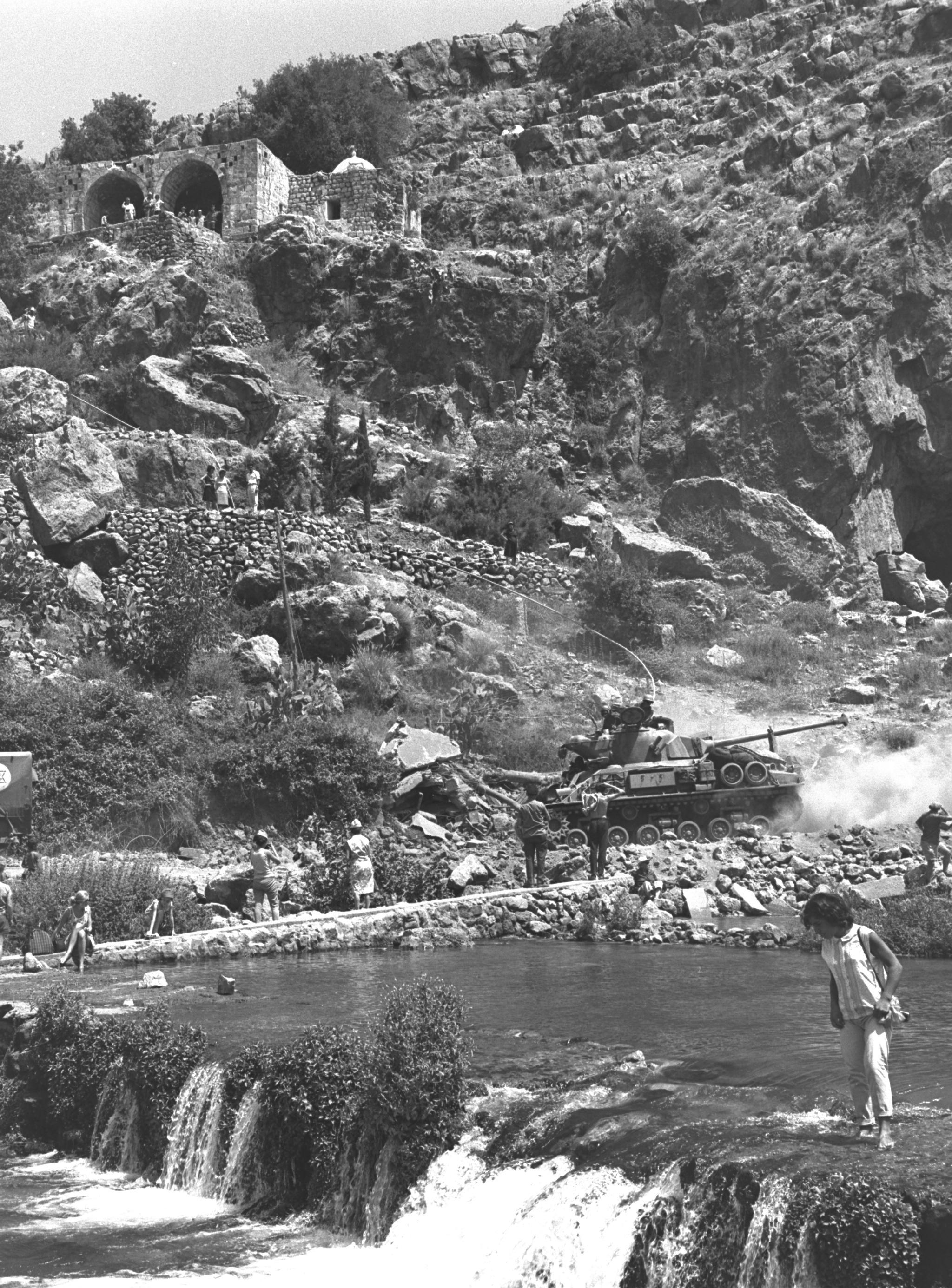 Banias.